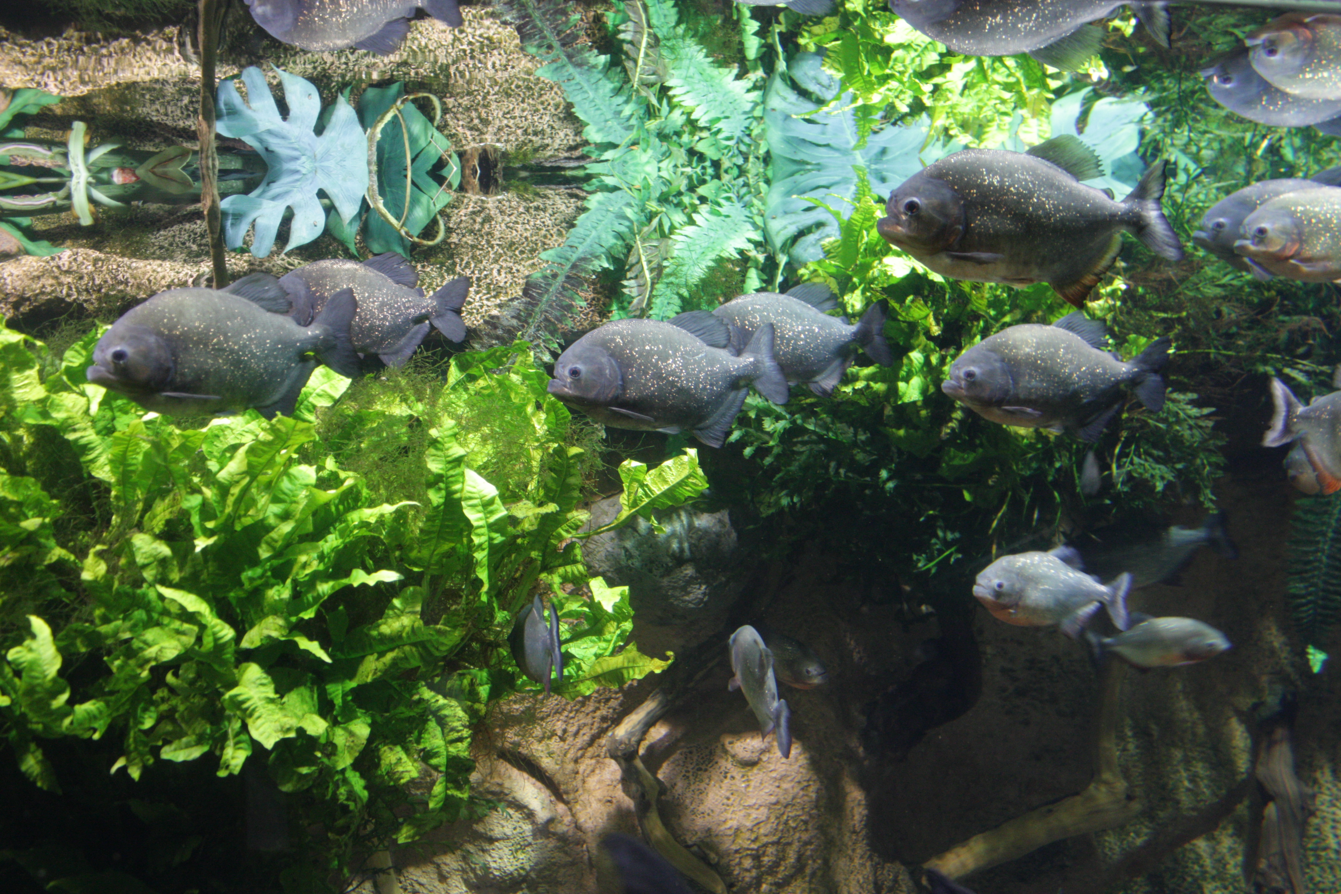 Piranha in the St. Petersburg Oceanarium. Street Marata 88.